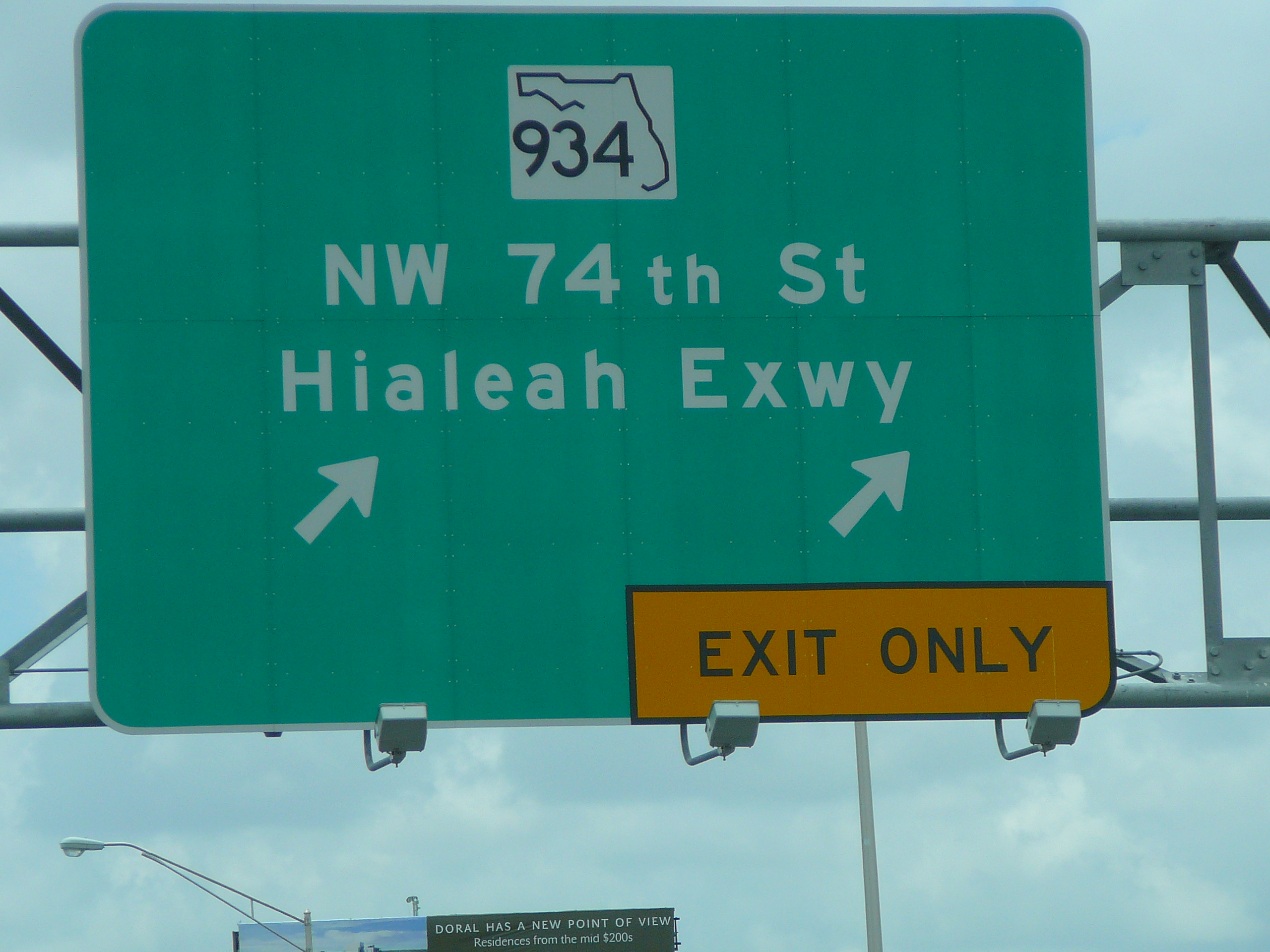 Sign on the Palmetto Expressway indicating exit for the Hialeah Expressway.